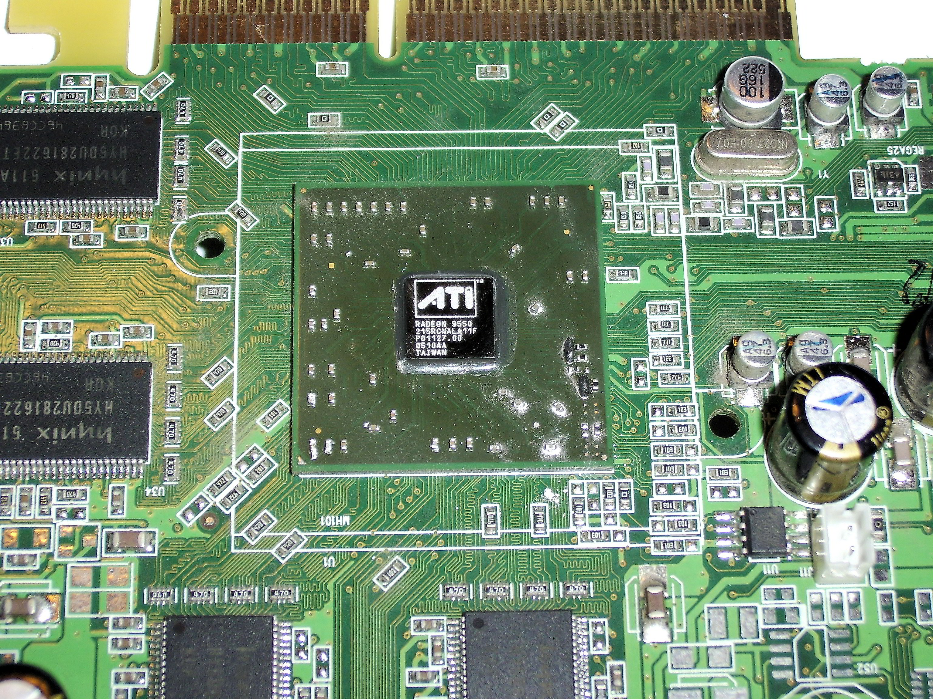 GPU of ATI Radeona 9550 128MB 128bit - Sapphire